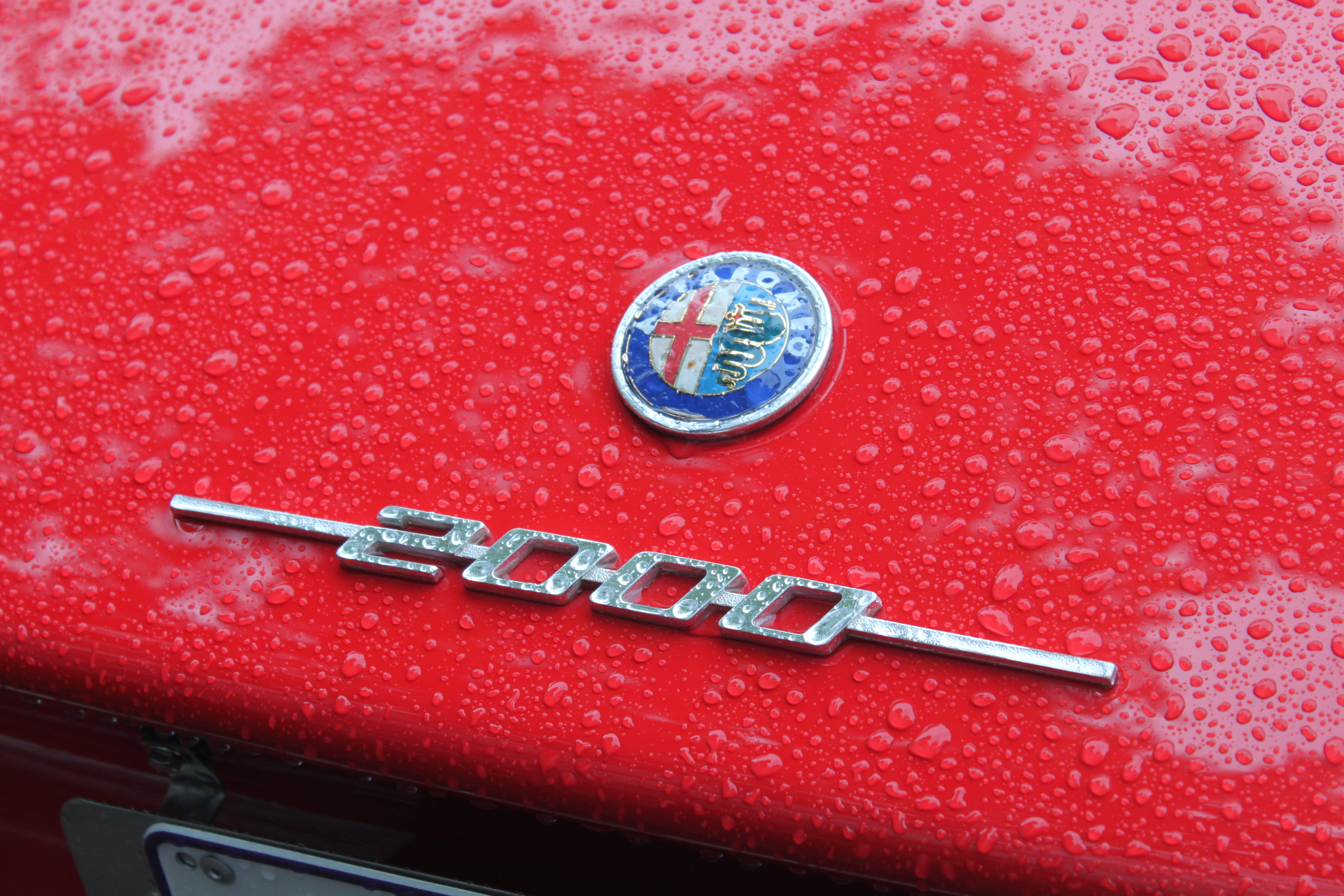 CARnivale, Australia Day, Sydney 2015